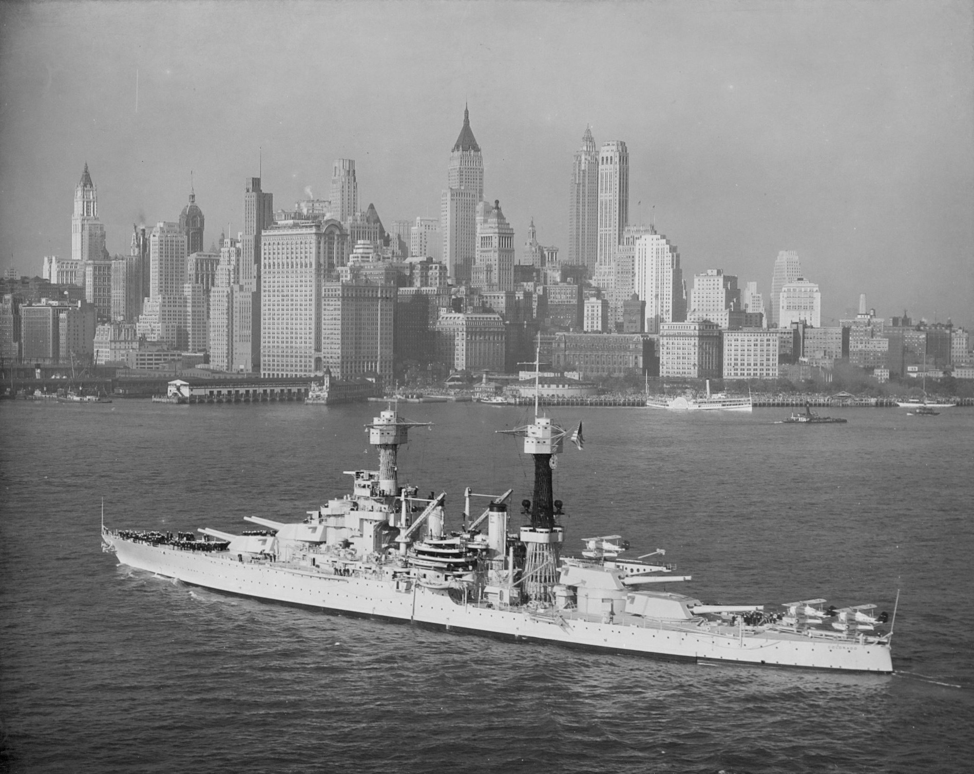 The modernized U.S. Navy battleship USS Colorado (BB-45) steams off lower Manhattan (New York City, USA), circa 1932.[1]